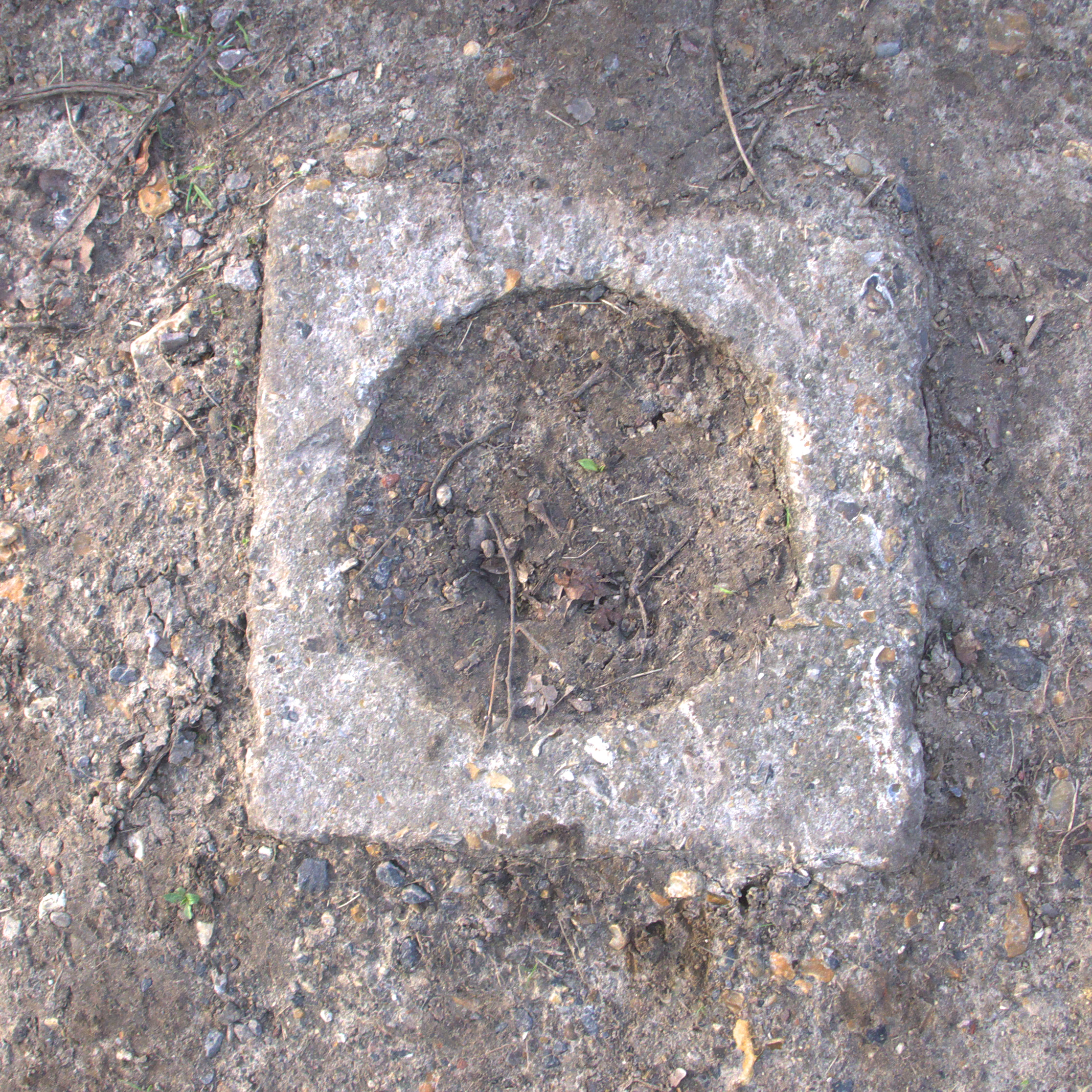 WWII mine sockets at Blacksmith's Bridge, Basingstoke Canal, England (Detail)